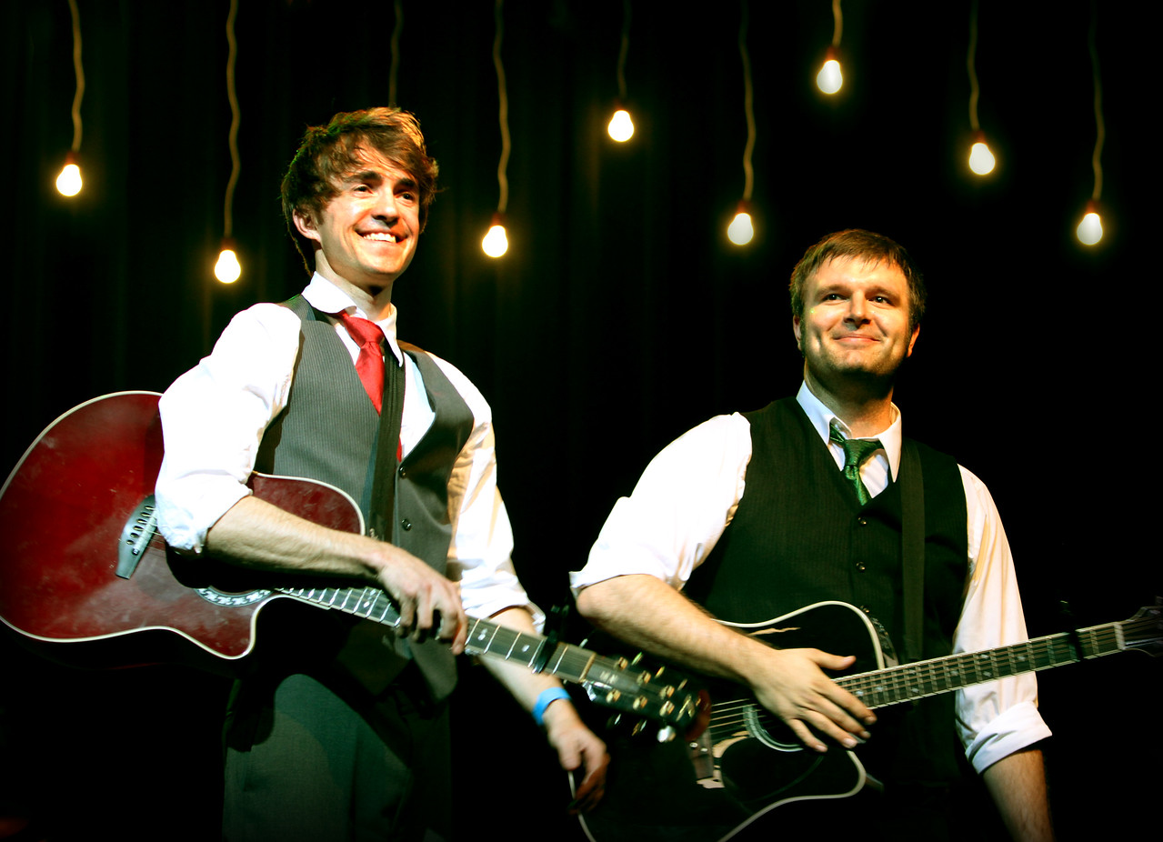 Ryanhood